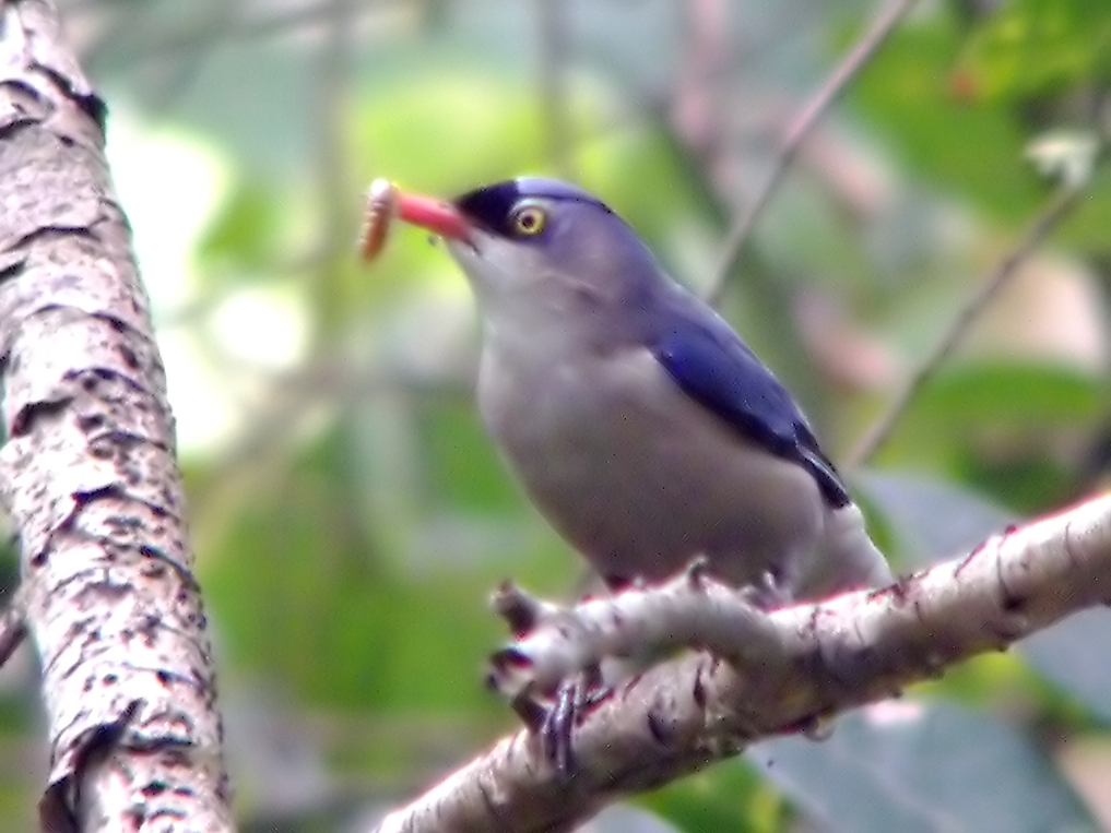 Velvet-fronted Nuthatch (Sitta frontalis)